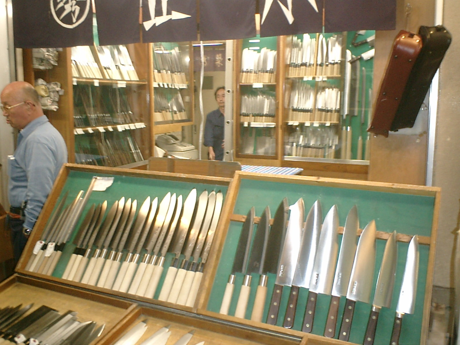 Tsukiji fish market in Tokyo, Japan